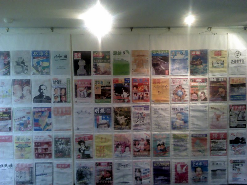 台灣戡亂戒嚴時期的黨外雜誌，壽命都很短，但是層出不窮